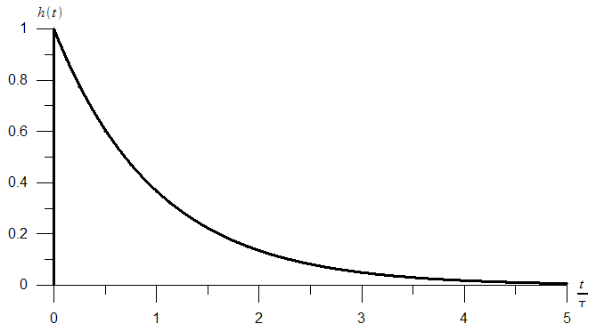 Integrator circuit's impulse response